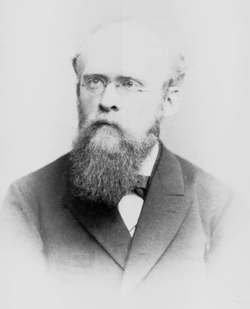 The picture of German musician Paul Klengel (1854—1935)